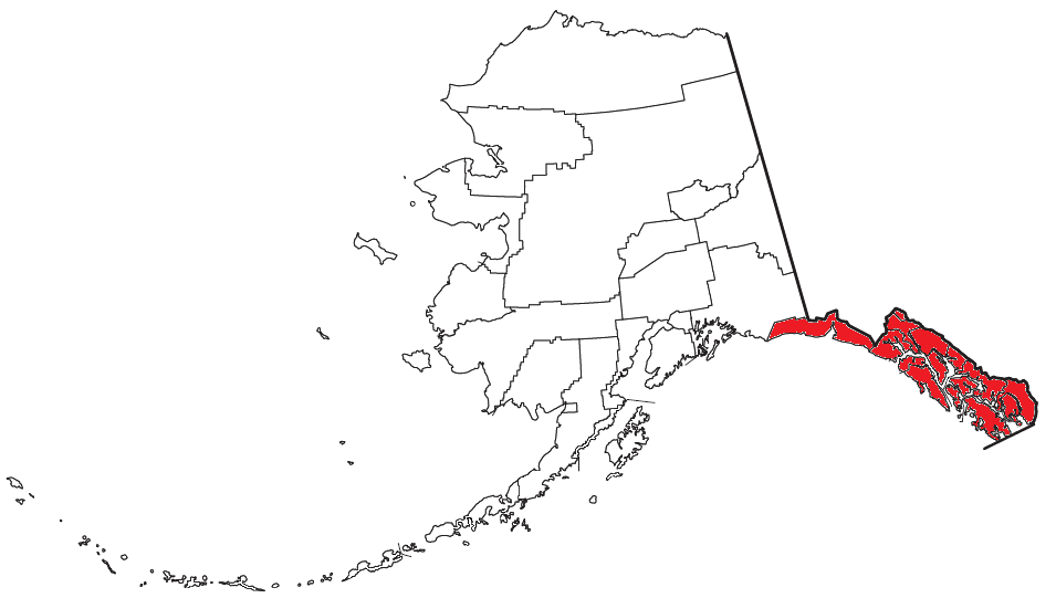 Map of Southeast Alaska region.